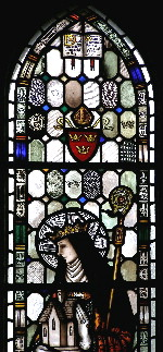 Part of a stained glass window in St Stephen's parish church, Prenton, Wirral, England